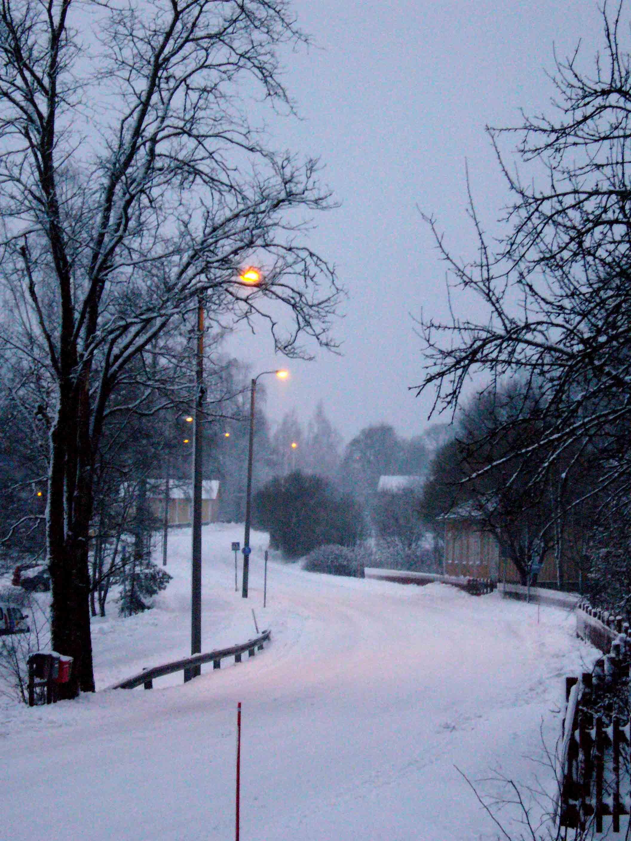 Keskustie road (national road 104) in Karjalohja, Finland